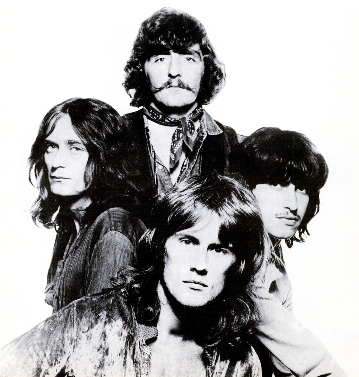 Trade ad for Ten Years After's single "Love Like A Man". To better adapt it to his respective Wikipedia article, the ad was cropped and cleaned in a graphics editing program. The original can be viewed at the source below.